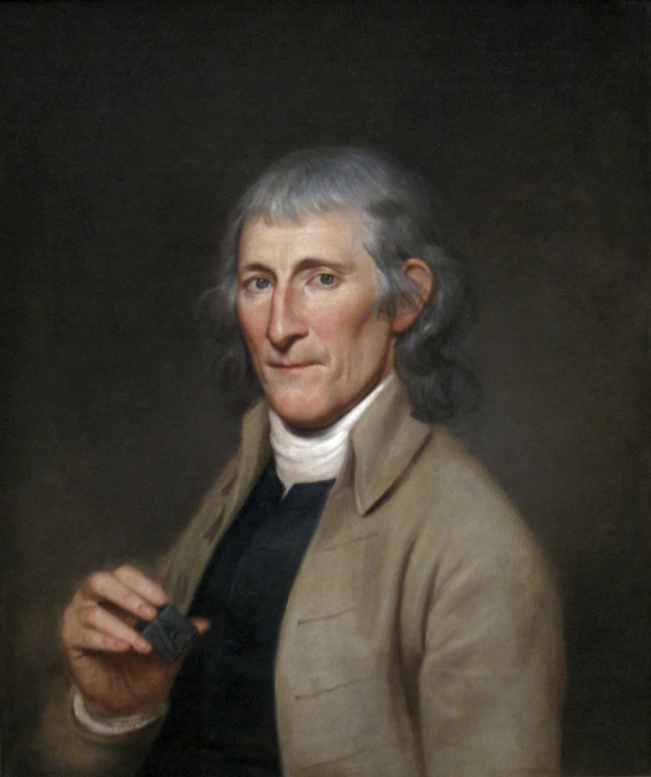 Portrait of Francis Bailey, Revolutionary War printer (1744-1817)